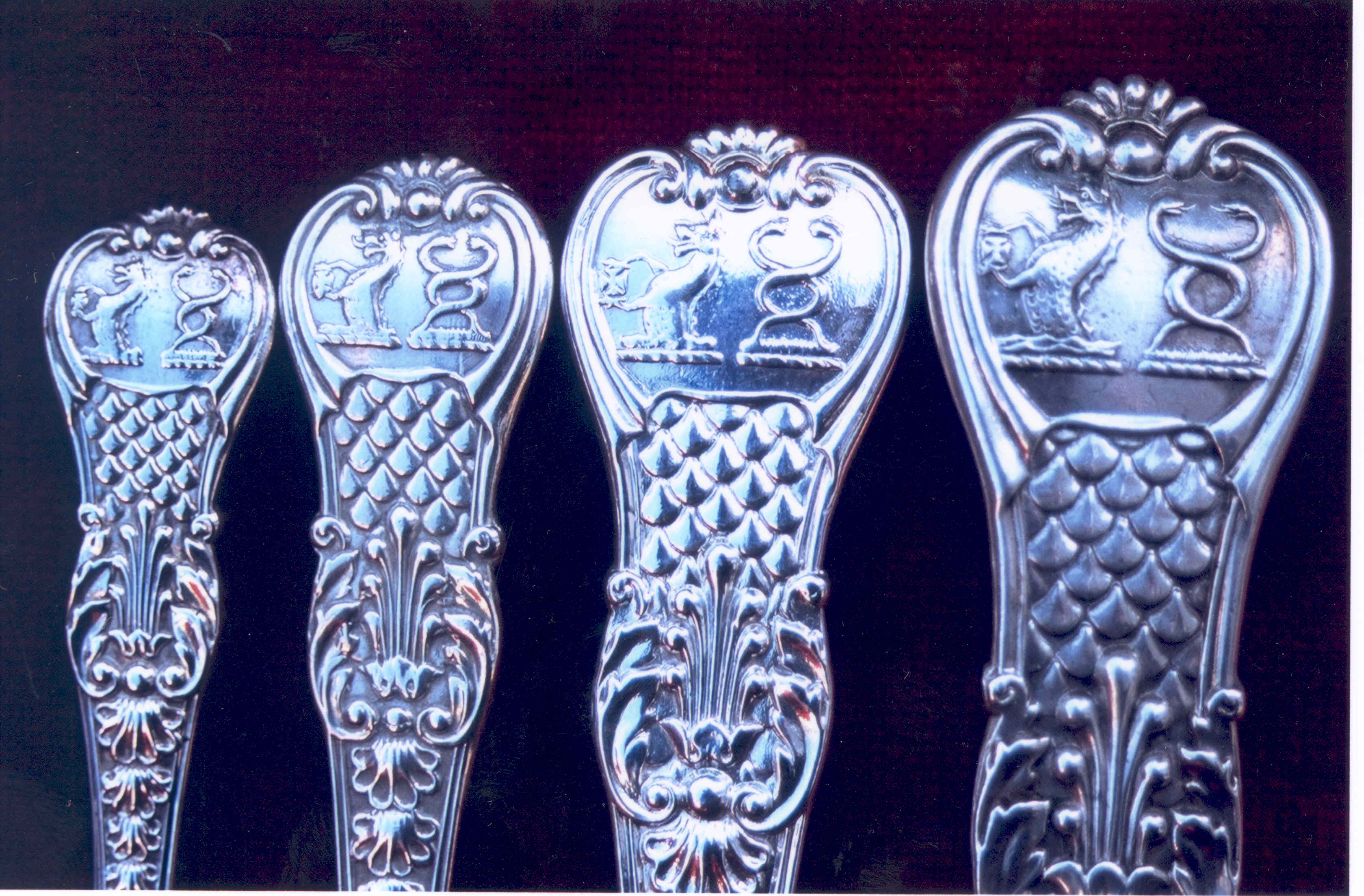 The Bisse-Challoner crests on the handles of a set of 1830s silver Coburg-pattern spoons in London. The Bisse crest: "on a mount vert two snakes Or, interlaced respecting each other". The Challoner crest: "a demi sea wolf rampant, Or".